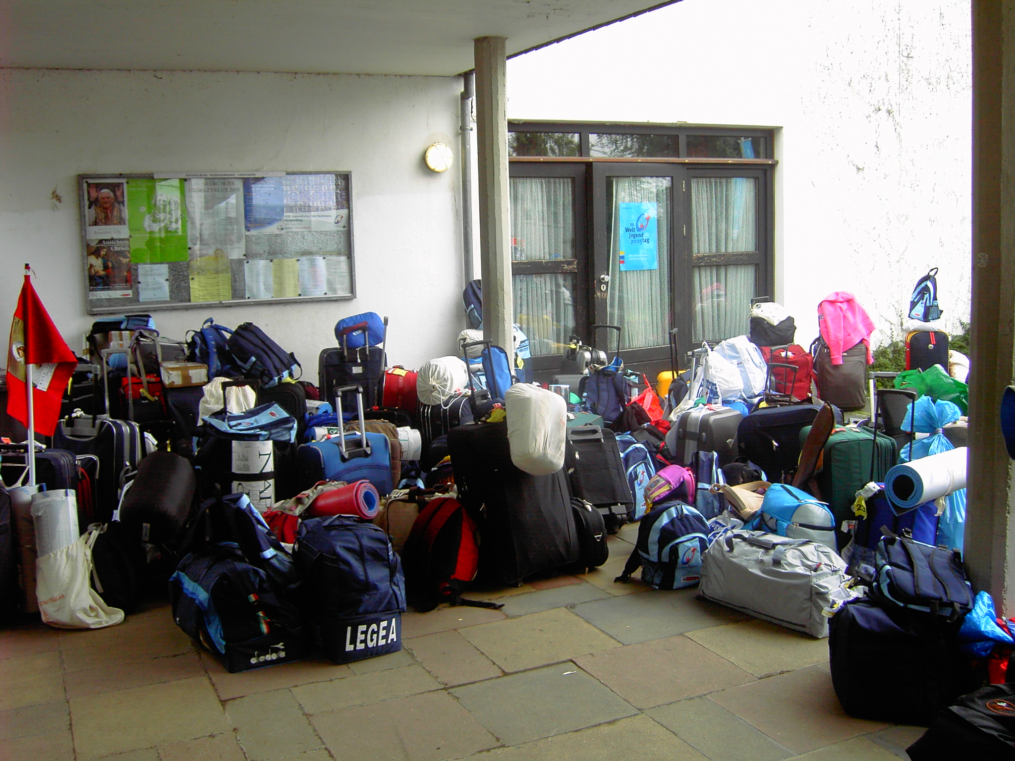 The luggage of pilgrims.